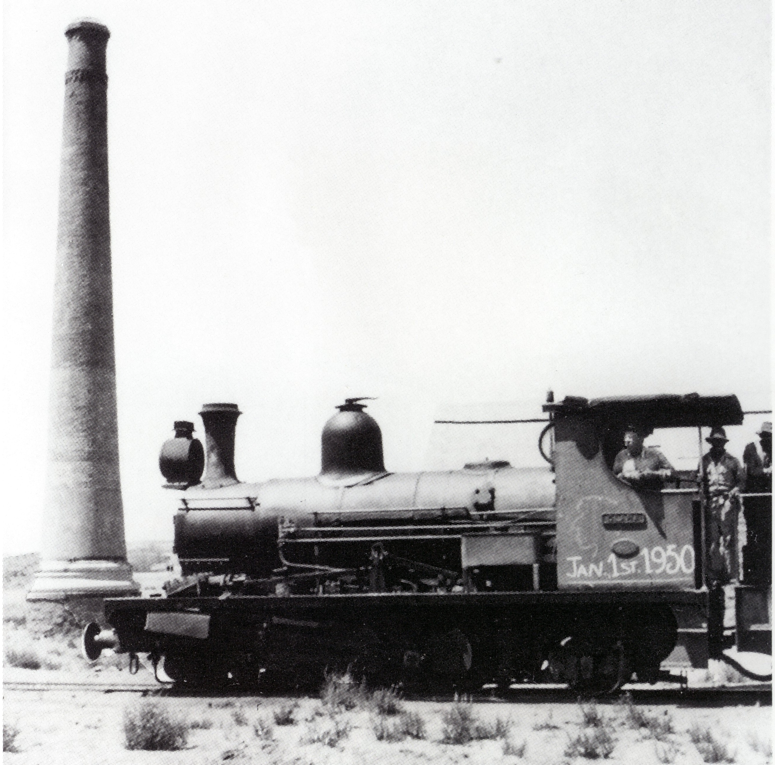 Cape Copper Company 0-6-2 Clara Class no. 4 "Clara" on the shunt at the O'okiep Stack